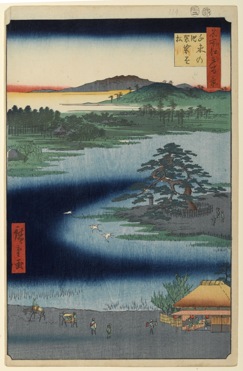 Part of the series One Hundred Famous Views of Edo, no. 110, part 4: Winter.